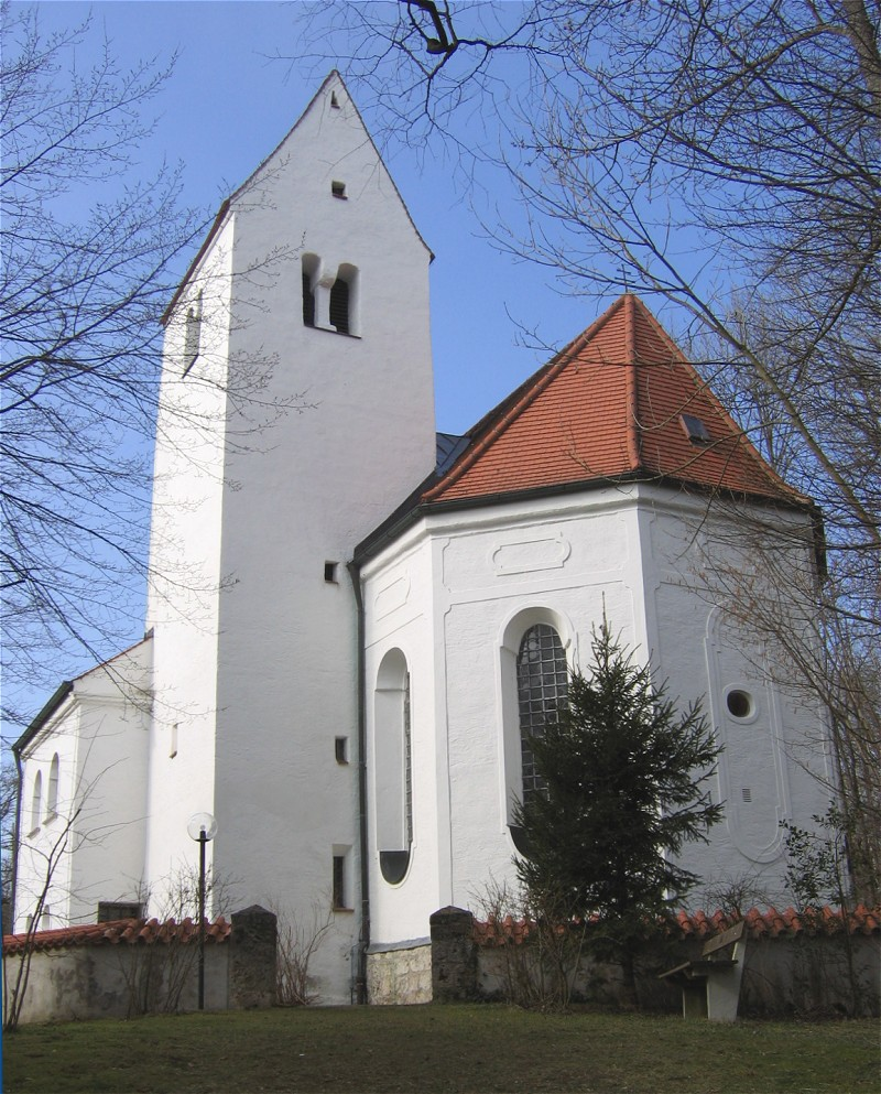 Altenburg (Moosach), view of the Sanctuary of Our Lady of Victory (Maria Altenburg) from south-east.